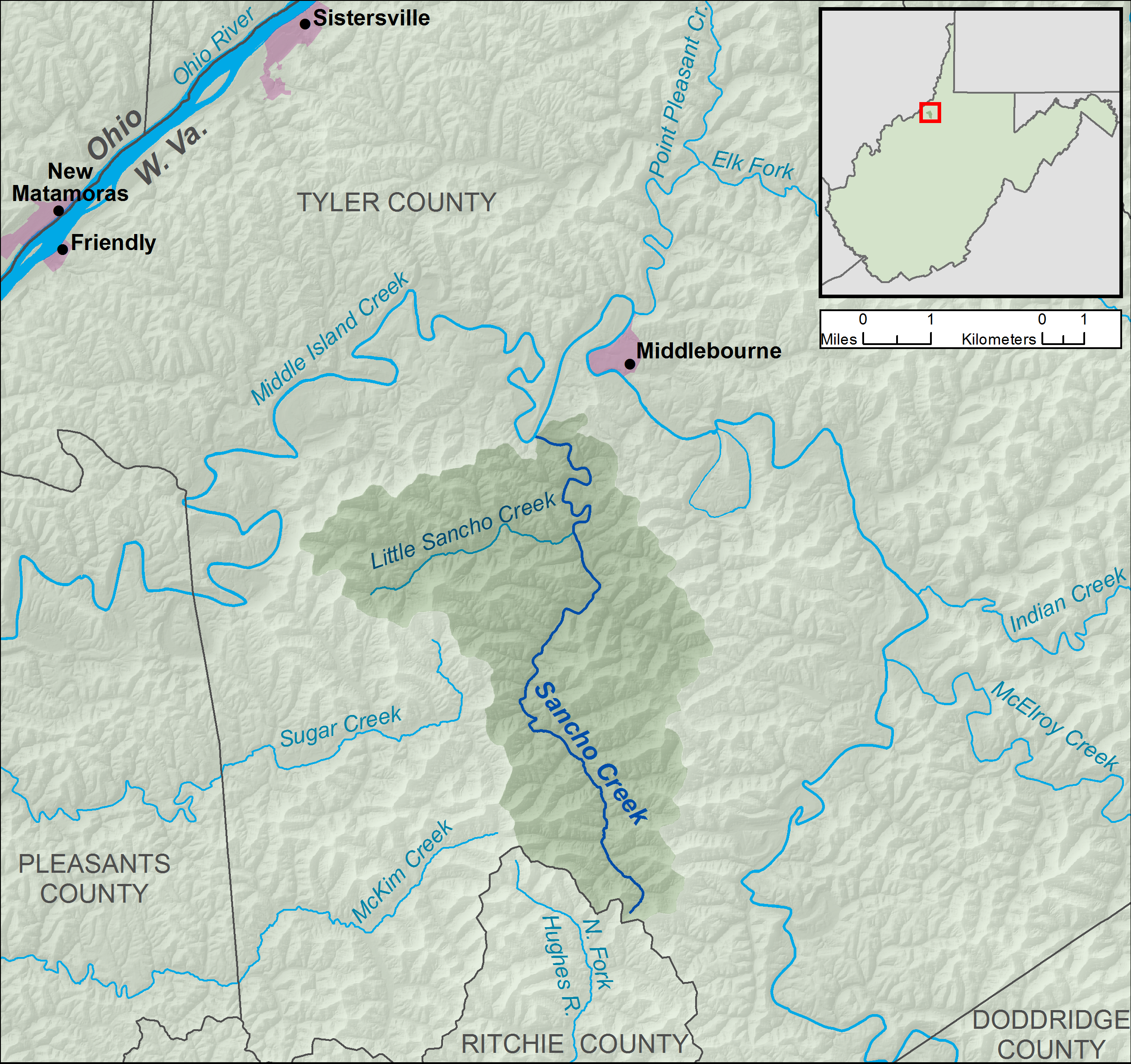 A map of Sancho Creek and its watershed (USGS HUC-12 code 050302010505), in Tyler County, West Virginia.